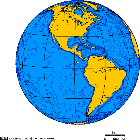 Orthographic projection centred over Cocos Island, Costa Rica